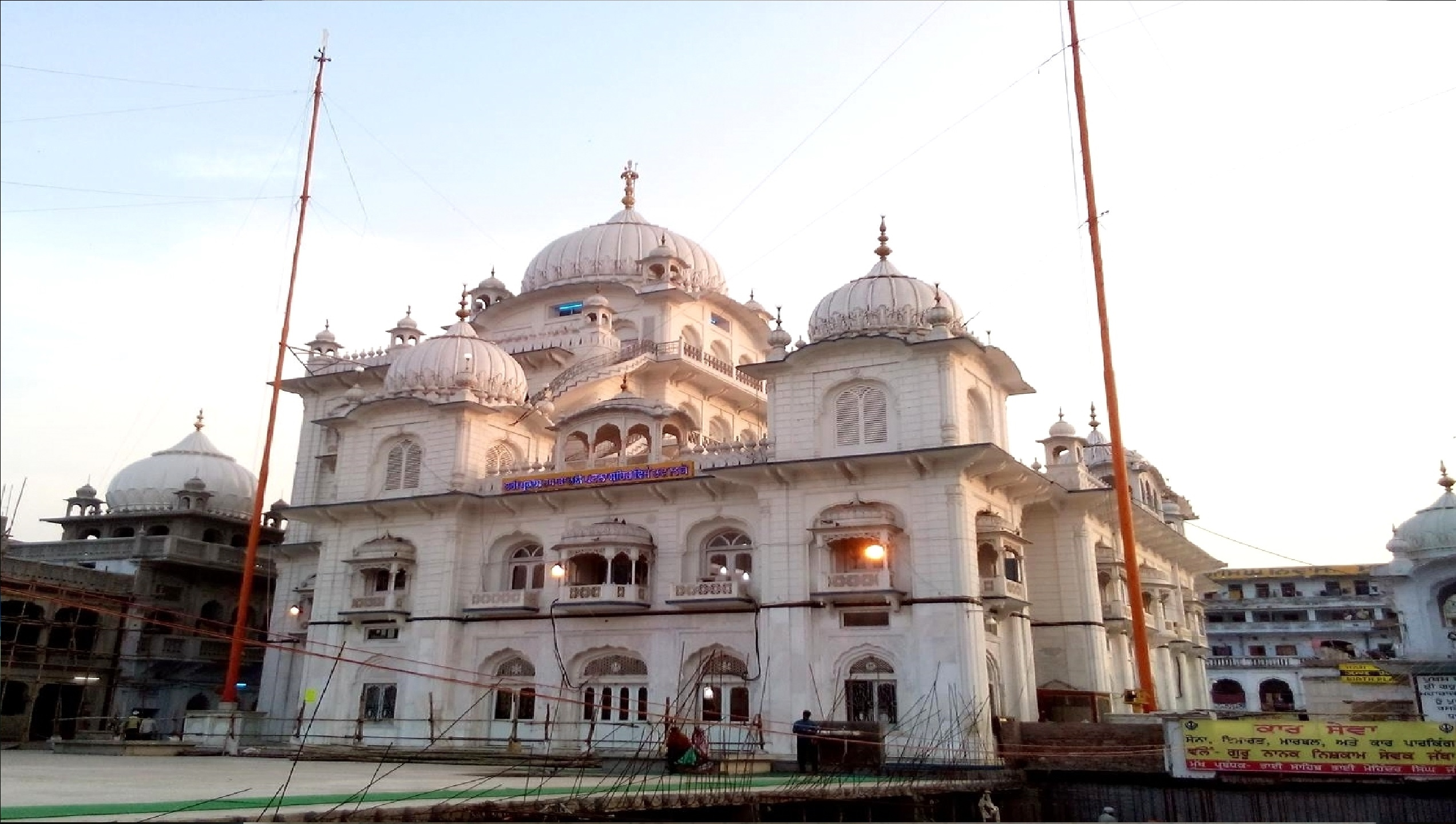 Takhat Sri Harmandar Sahib, Patna Sahib, Patna, India